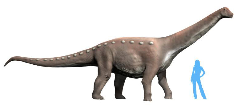 Restoration of Mansourasaurus shahinae.